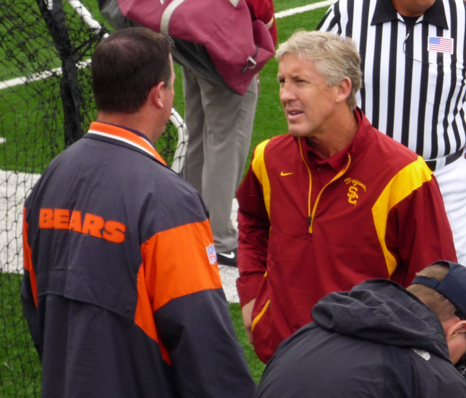 USC Trojans head coach Pete Carroll talks to an NFL scout on the sidelines before a game versus the Washington State Cougars in the 2008 season.